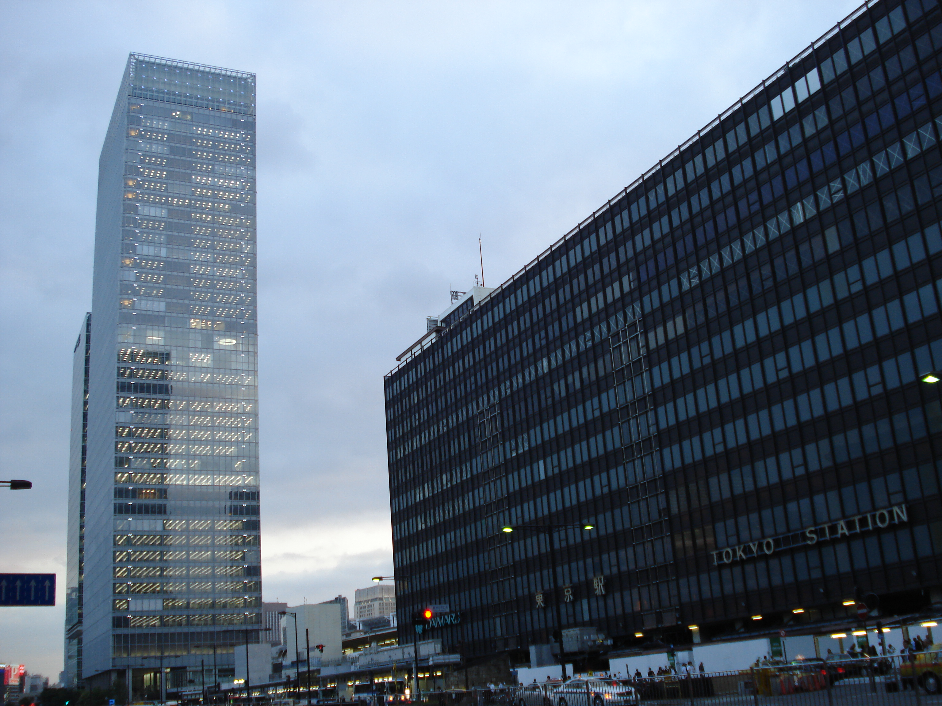 Building